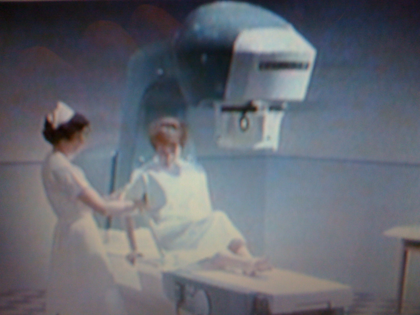 Radiation therapy machine used to treat breast cancer